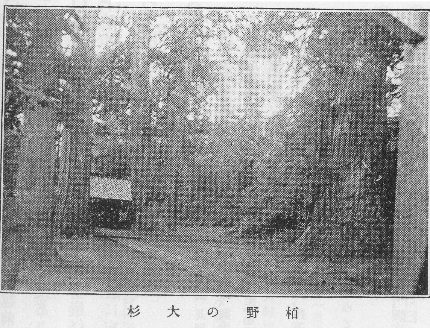 Great sugi of Kayano and other three in 1915, taken by the scanner from the book of 石川県江沼郡誌( History of Enuma District, Ishikawa, ISBN=4-653-01253-9), issued in 1915 and reprint version in 1985.